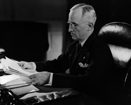 Official photograph of Harry S. Truman during his first term of office in the presidency. President Truman sitting at his desk in the White House.